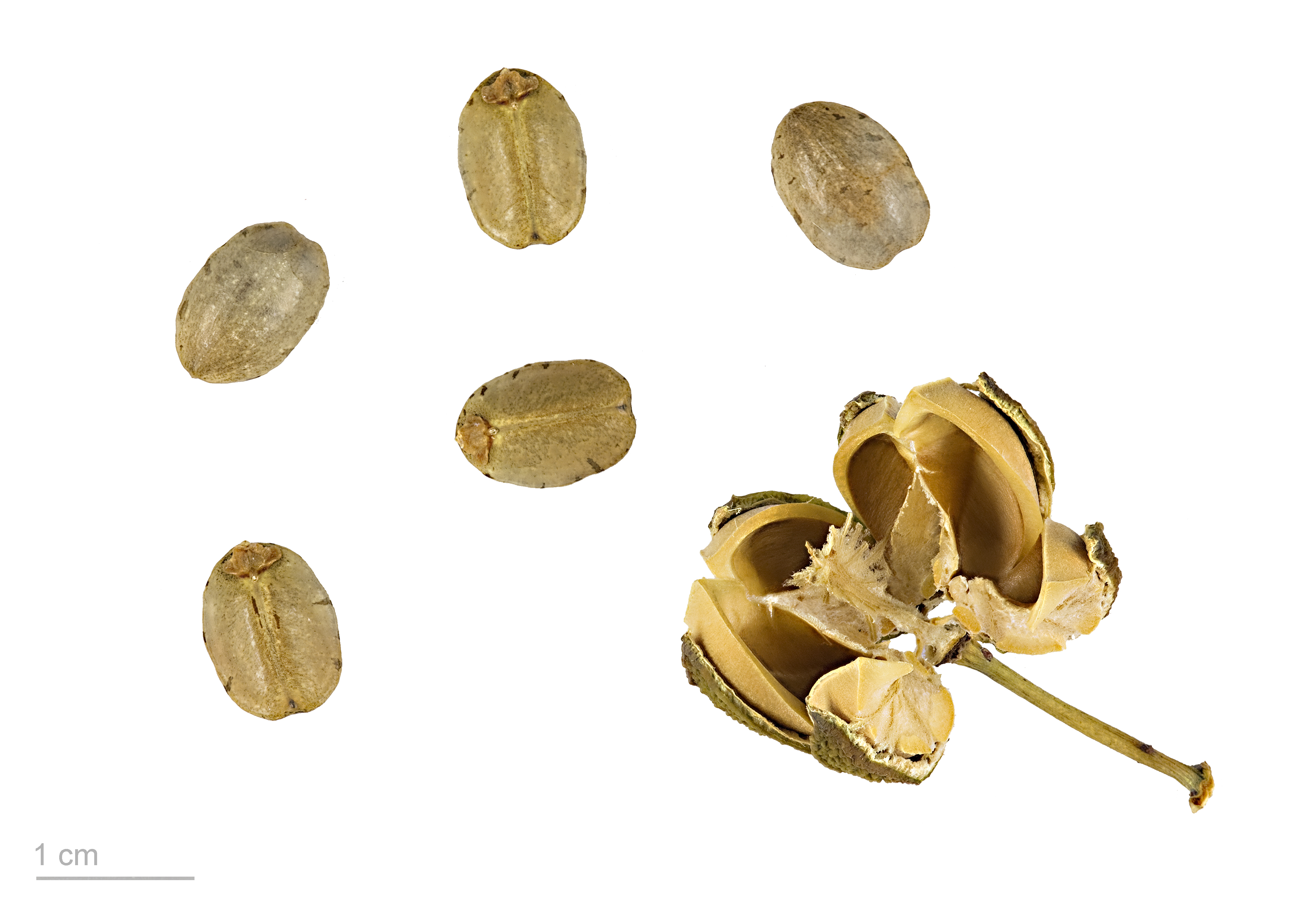 Cassava, manioc , fruits and seeds